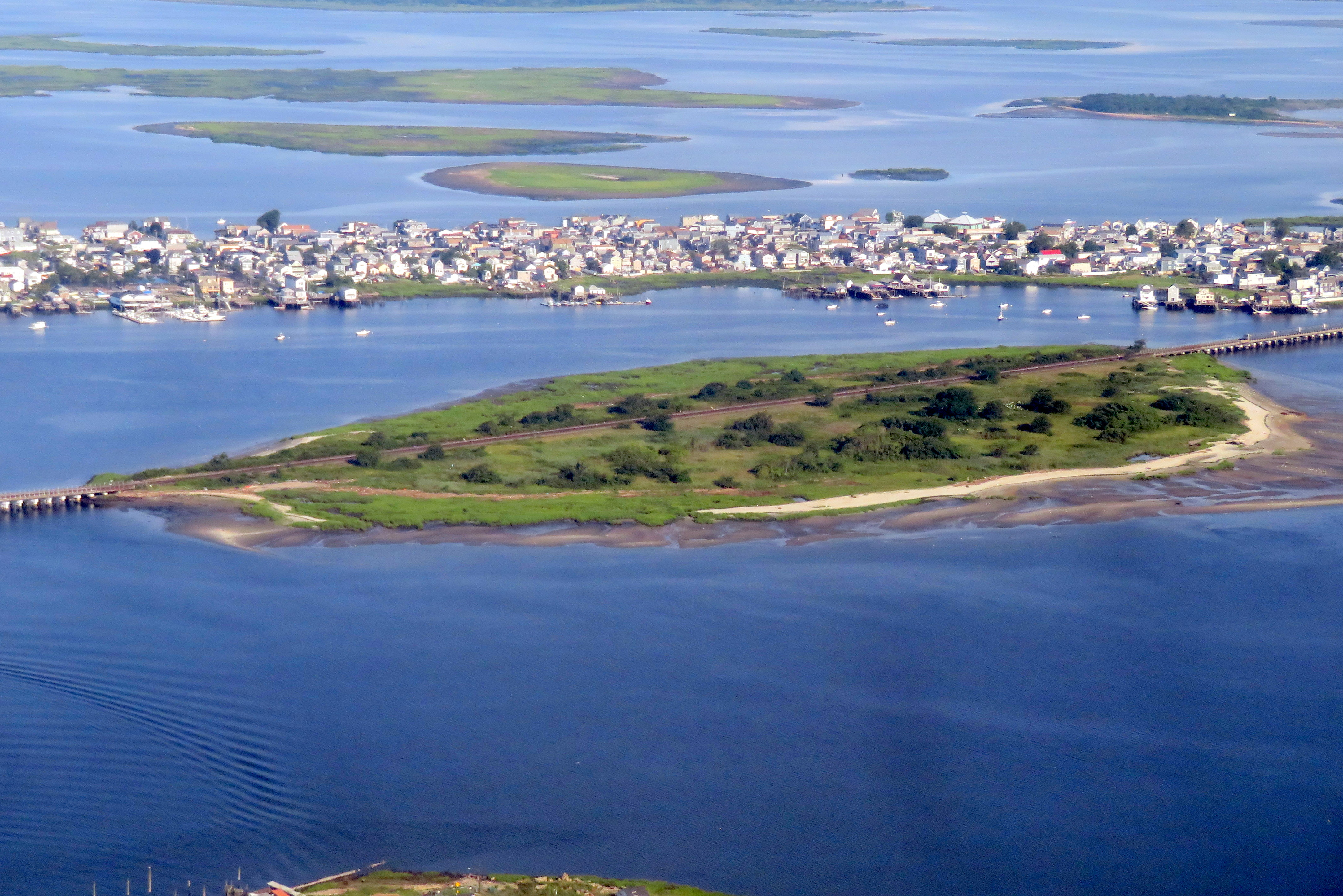 Aerial view of Subway Island in July 2019, with Broad Channel behind. The artificial island was created in the 1950s during the construction of the IND Rockaway Line.